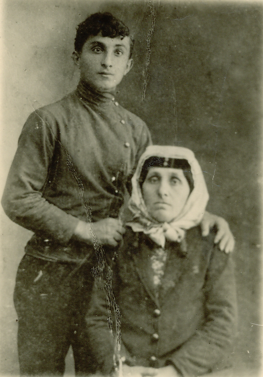 Henry Kuprashvili's grandfather, Luka Kuprashvili and his mother Mariam Qipiani